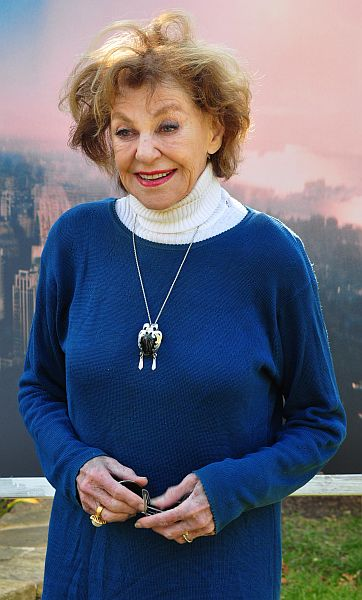 Actress Joan Copeland attends press interviews at the 19th Annual Hamptons International Film Festival on October 16, 2011 at the Maidstone Hotel in East Hampton, New York. (Photo:Nick Stepowyj)